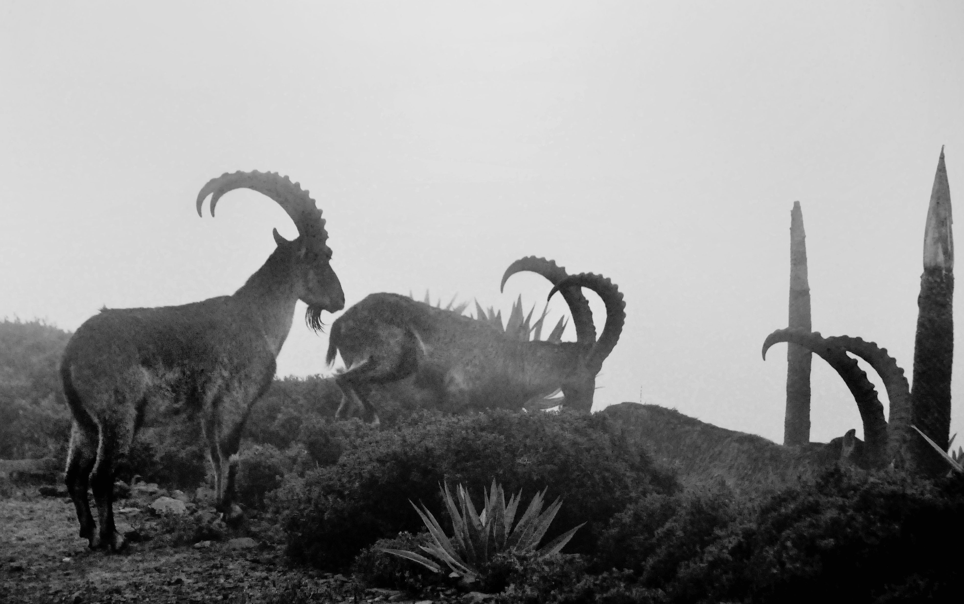 Endangered species